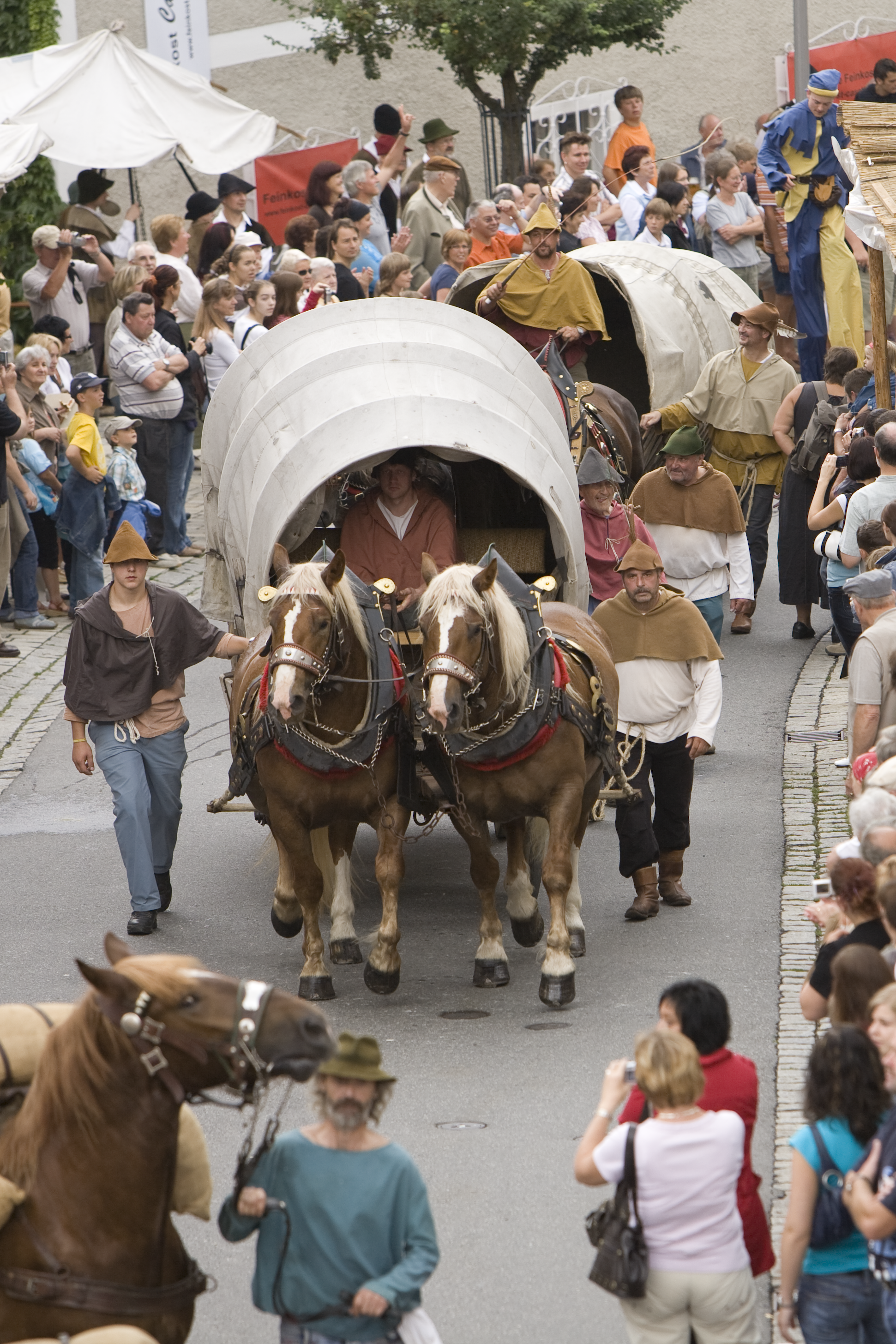 The parade of the salzsaeumer and jugglers in Grafenau, Lower Bavaria